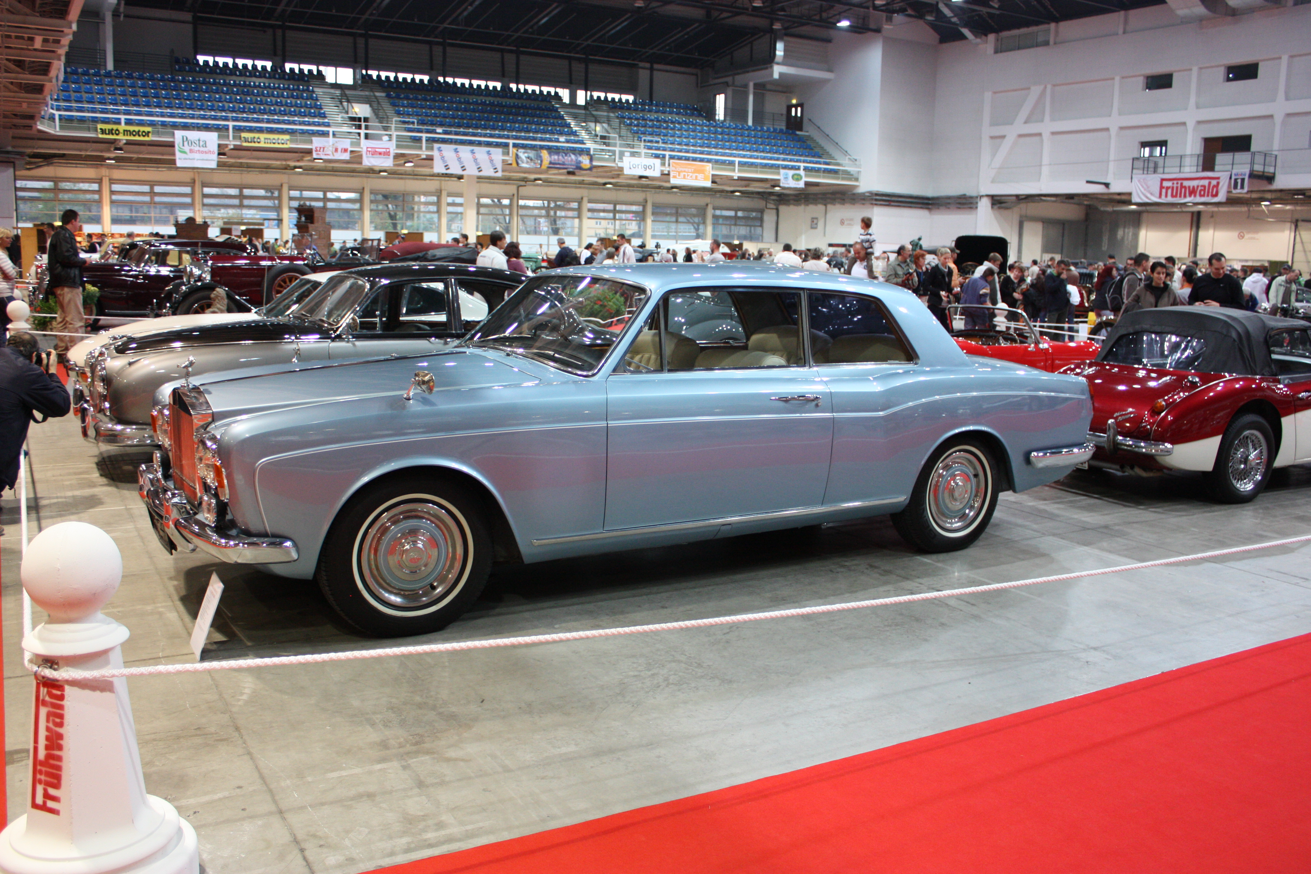 1967 Silver Shadow Mulliner Park Ward two door fixed head coupé (not a Corniche until 1971) at Oldtimer Show 2008.